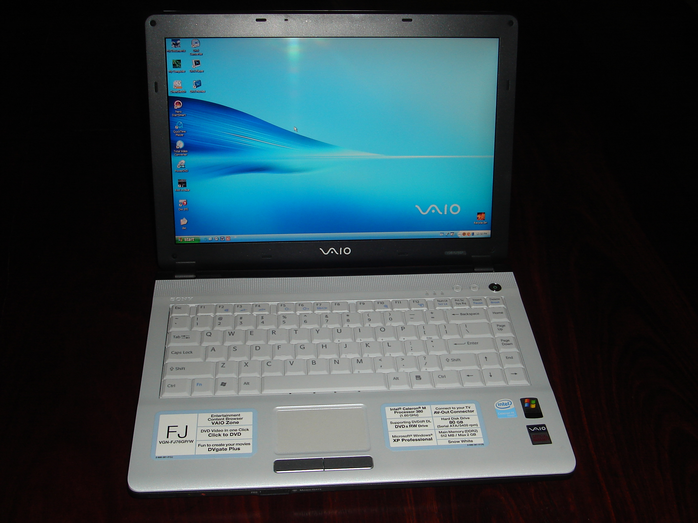 Photograph of a Sony VAIO FJ76GP taken by me.